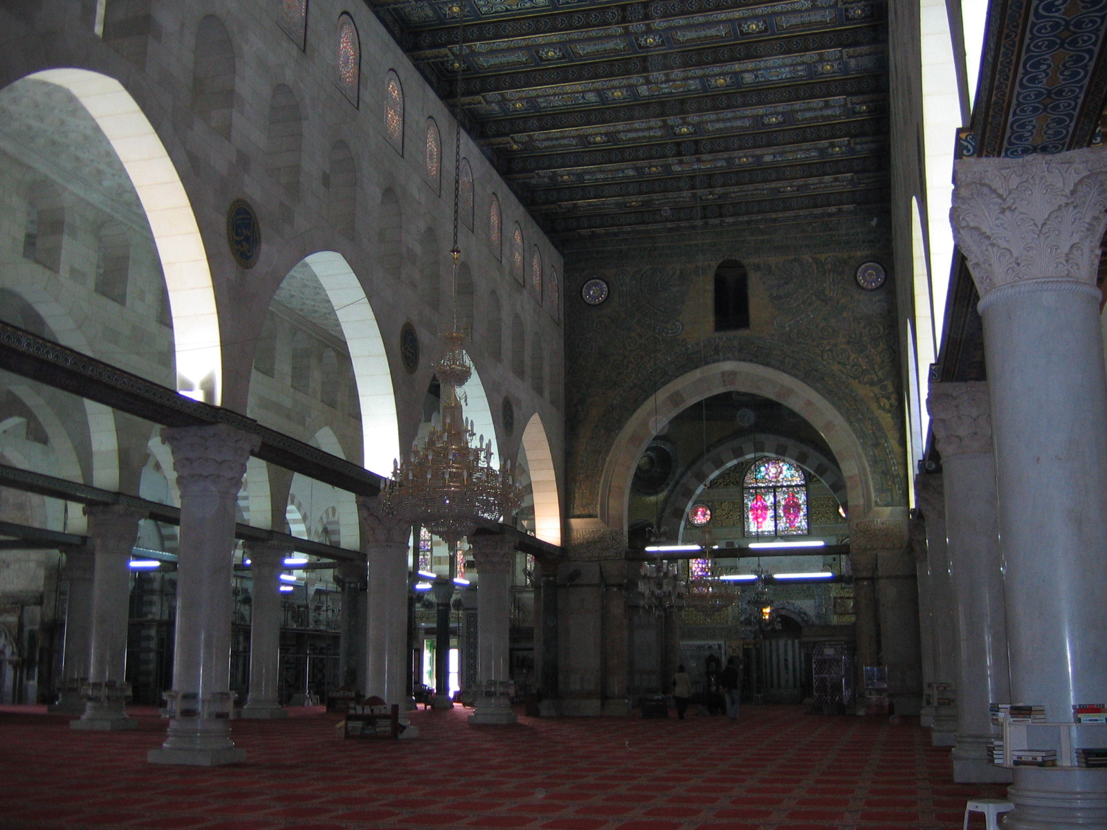 Interior of the Al Aqsa mosque on Haram al Sharif (Temple Mount) in Jerusalem.